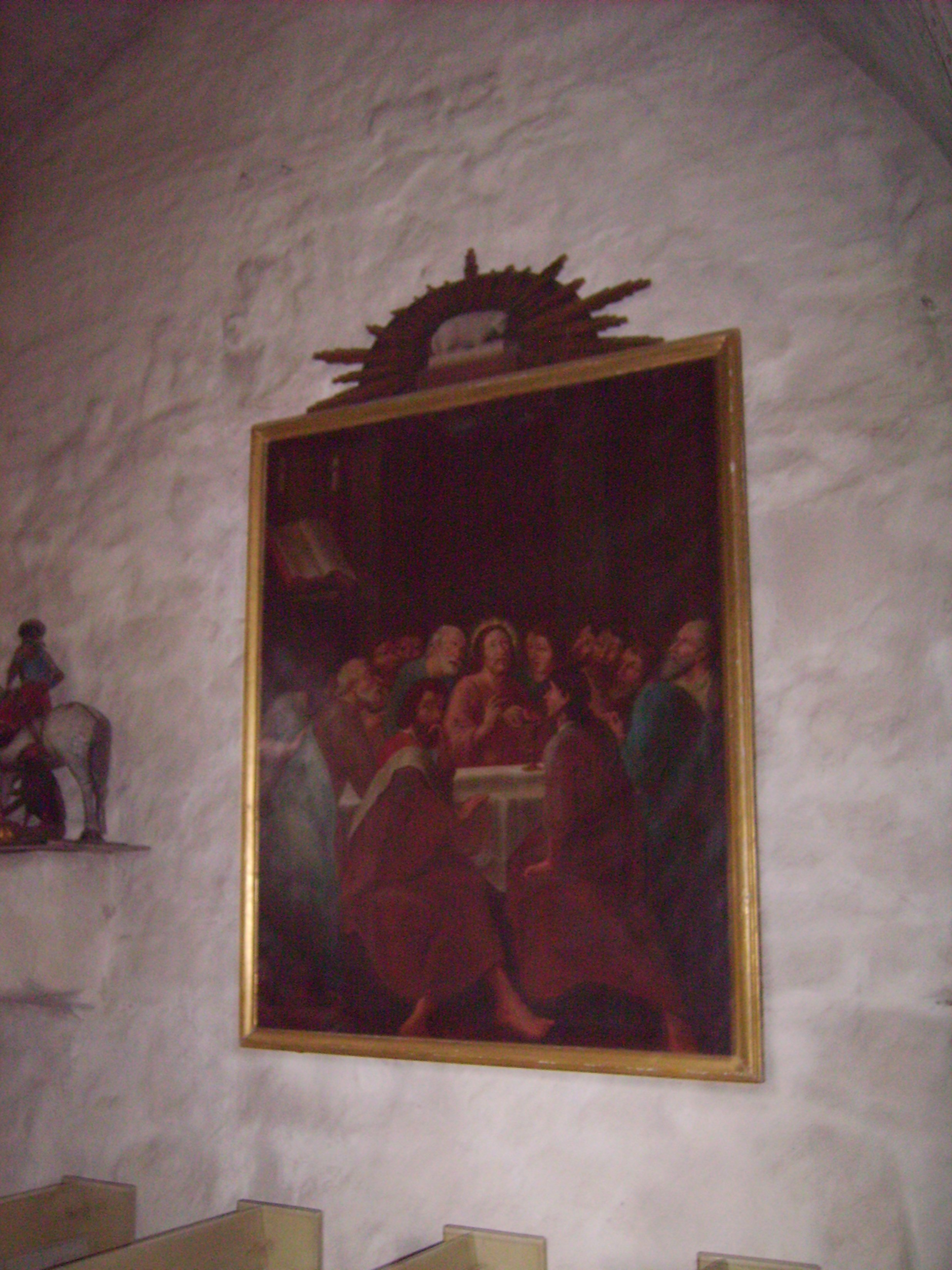 A painting in the medieval church in Korpo, Finland